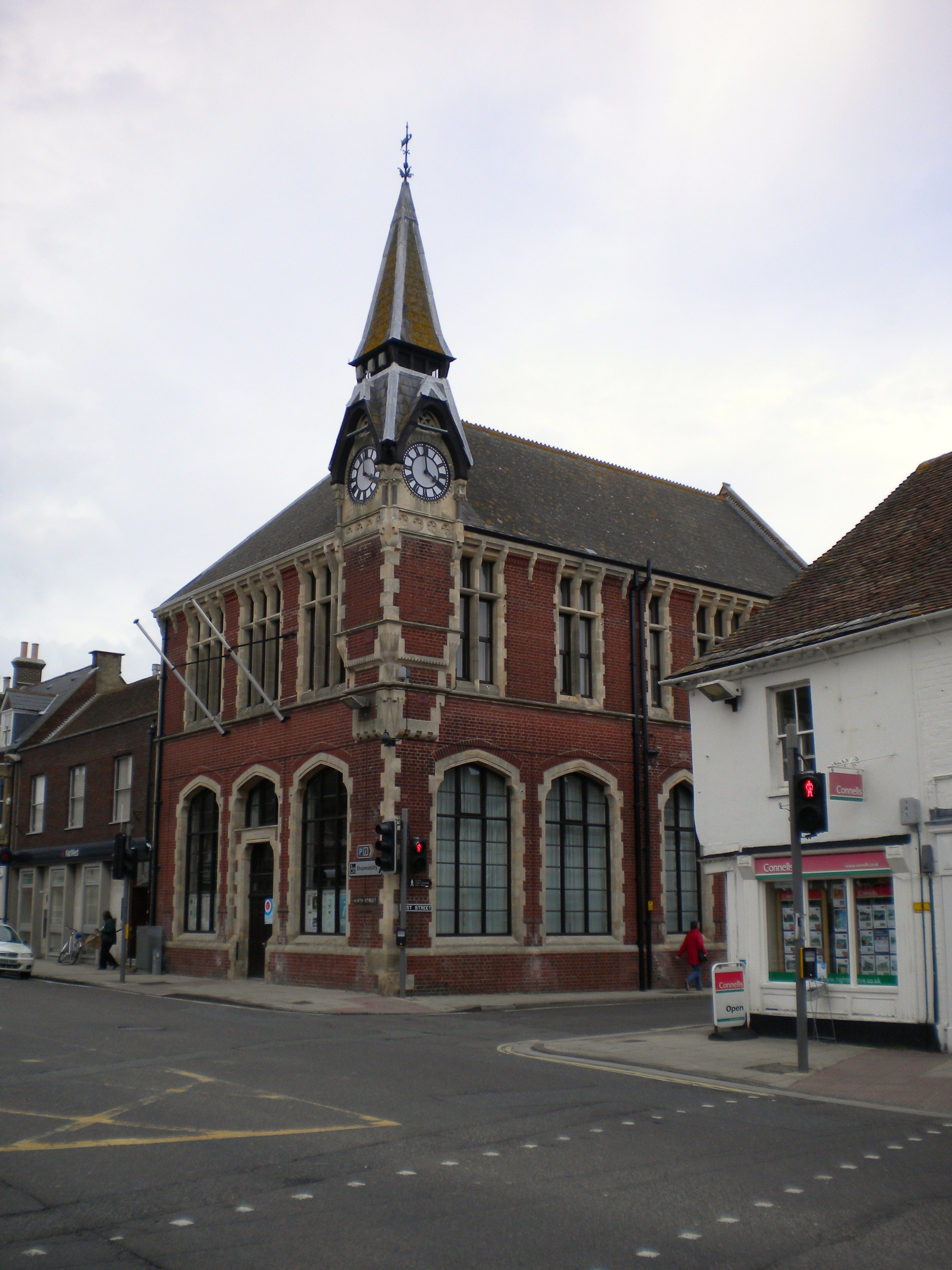 Wareham Town Hall, Dorset, England.